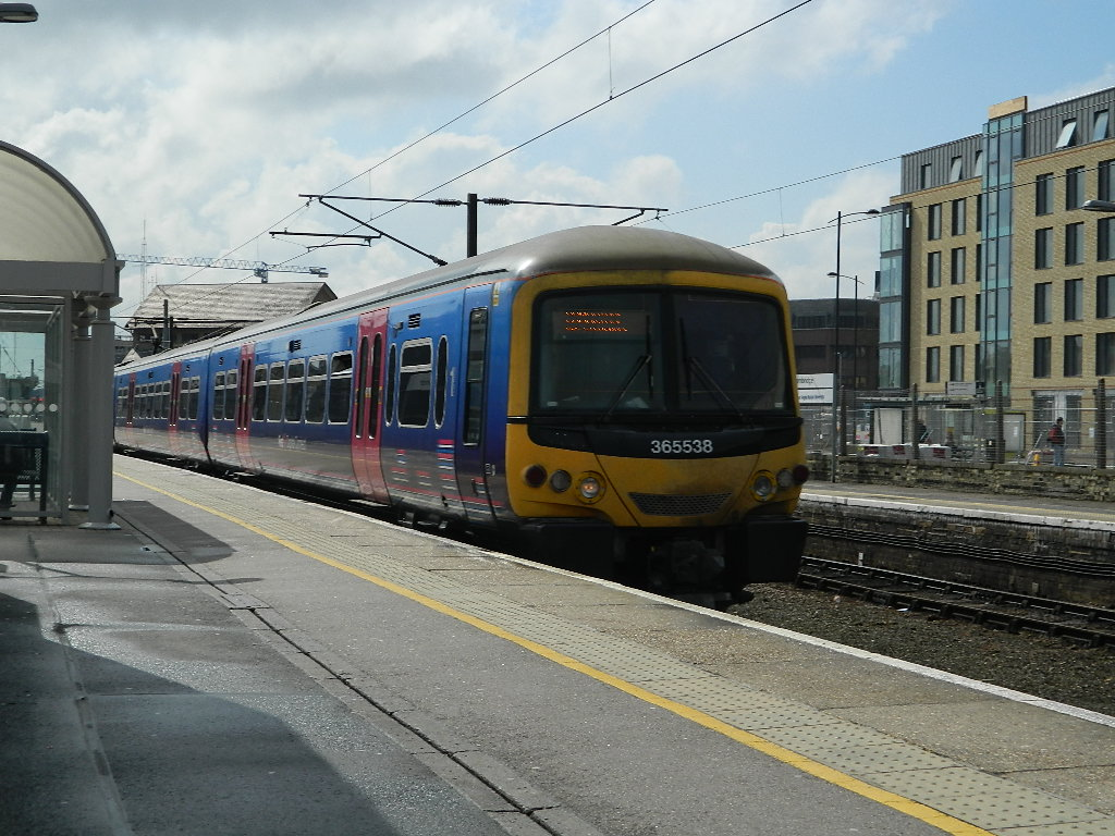 The 365538 rolls into Cambridge on the semi-fast from London Kings X.